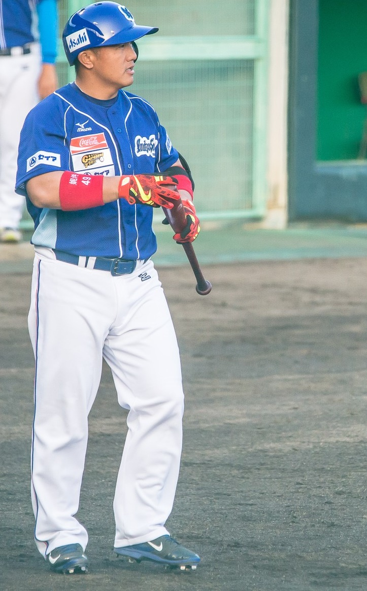 The baseball player is Chang Tai-shan and he is come from Taiwan.